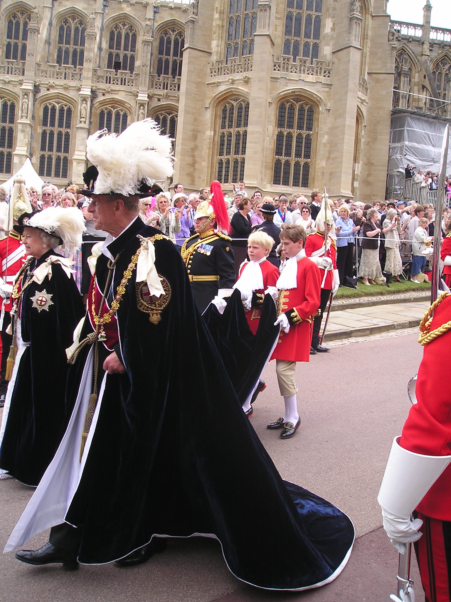 The Queen (as Sovereign of the Most Noble Order of the Garter) and the Duke of Edinburgh, in procession to St George's Chapel, Windsor Castle for the annual service of the Order of the Garter. The Sovereign's mantle is embroidered with the Star of the Order, rather than the badge, as for all other Knights (including the Duke of Edinburgh). The mantles of the Sovereign and Royal Knights also have a train.